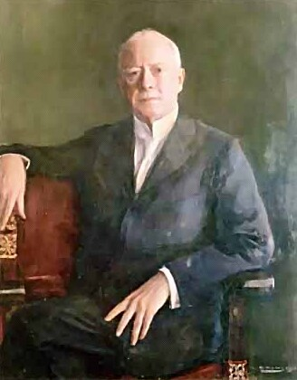 Ramon Casas i Carbó (1866–1932), Portrait of Charles Deering, 1914 from [1] This should be the relevant licence for an artist from Spain, where life + 70 is the law under the Berne Convention.